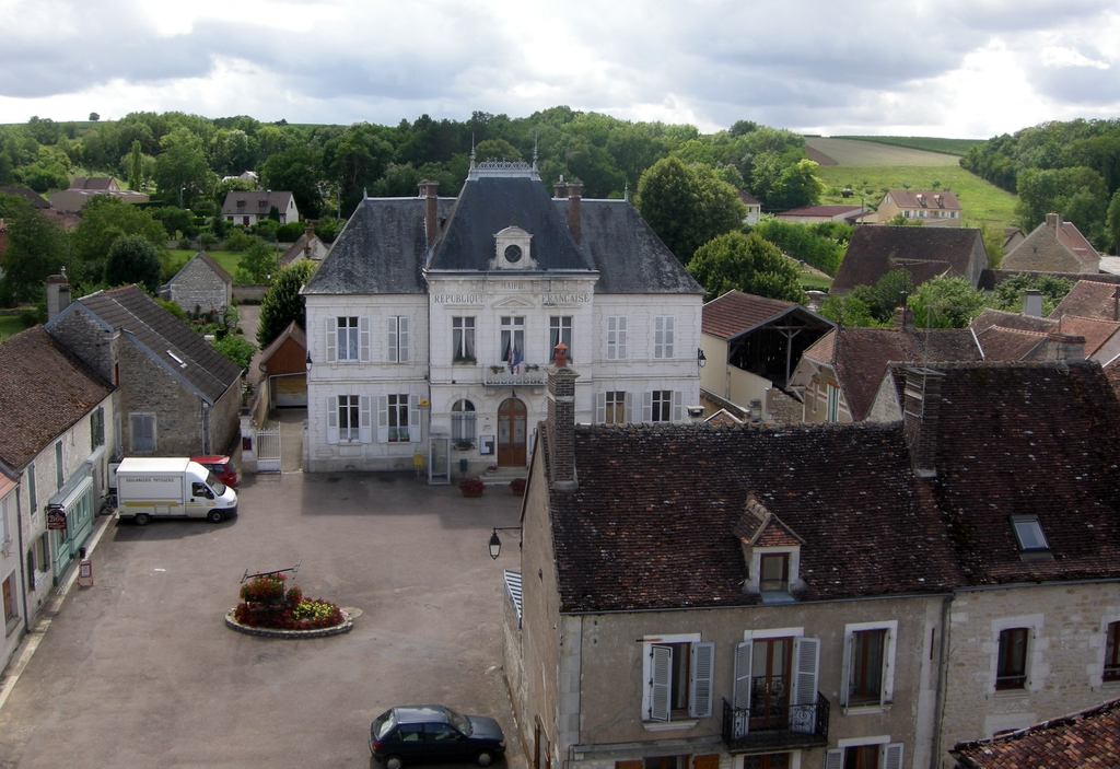 Mairie vue du clocher